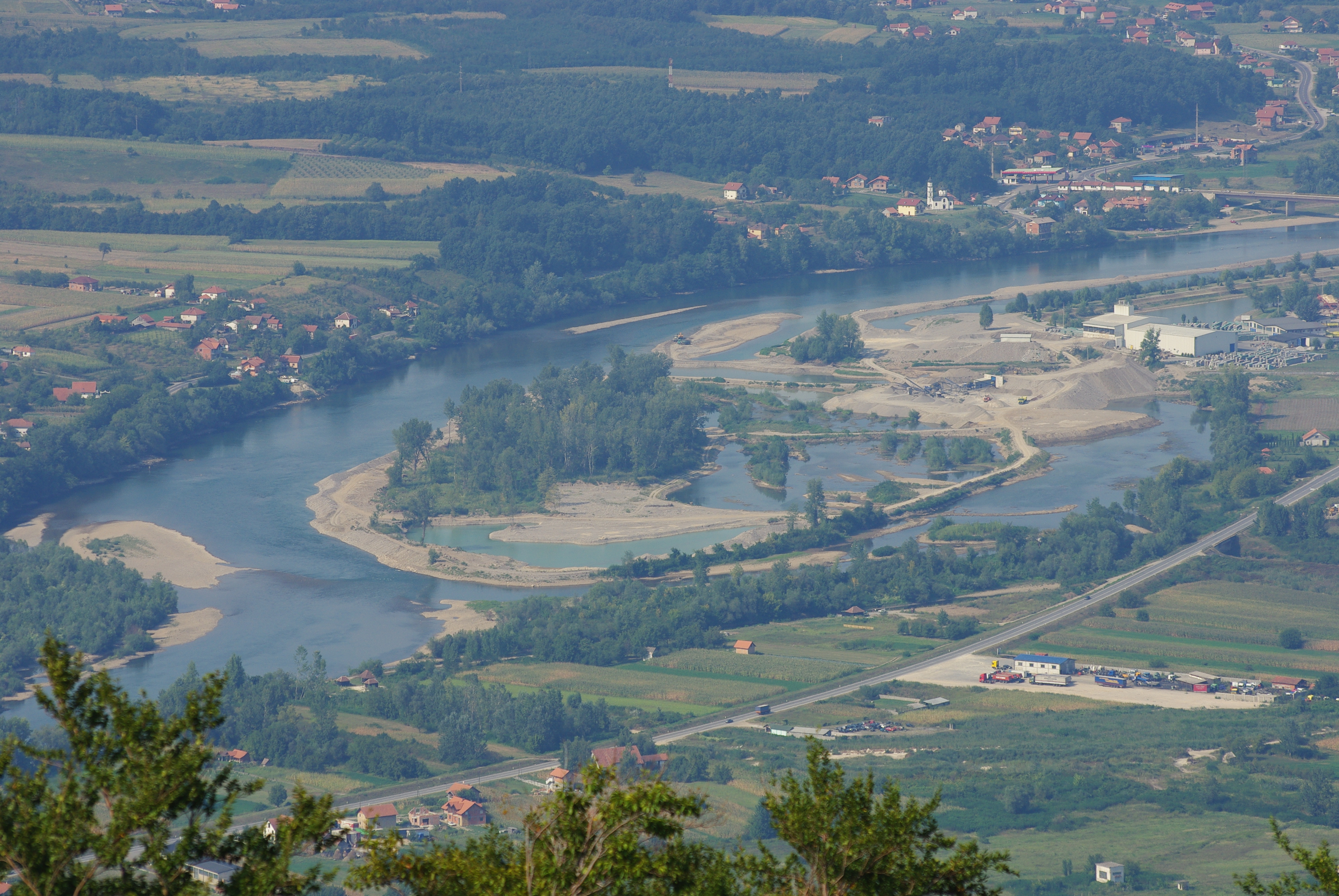 River island on Drina, Loznica,Serbia